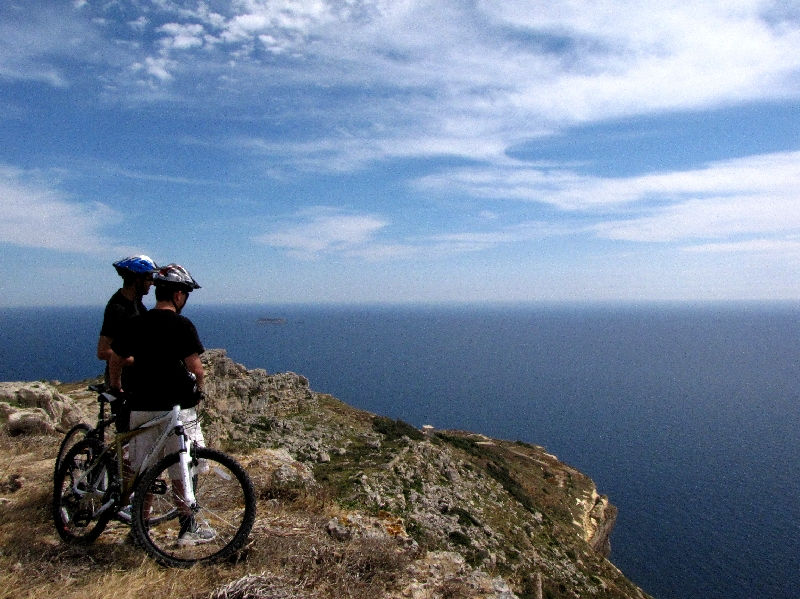 Bike Adventure along the cliffs in the north of Malta with Malta By Bike.